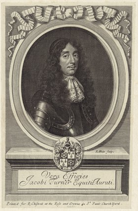 Engraving of Sir James Turner